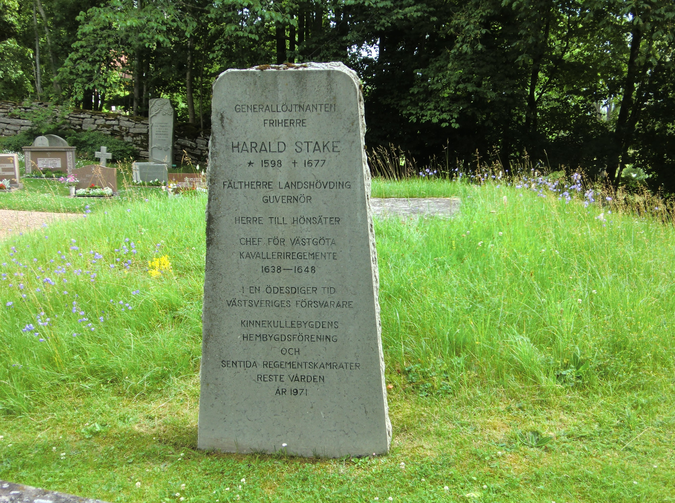 Burial vault and memorial stone in the memory of the Swedish General Harald Stake (1598-1677), the first Swedish governor over the conquered Norwegian province Bohuslän in 1658. Gravesite at Österplana old church, Kinnekulle, Sweden.